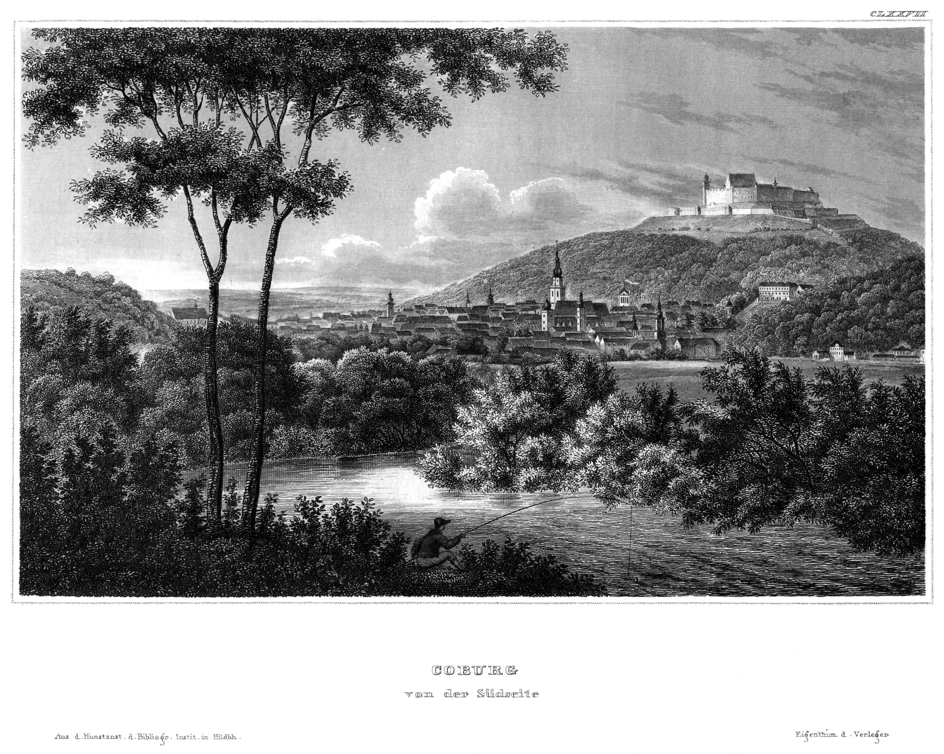 antique print of Coburg